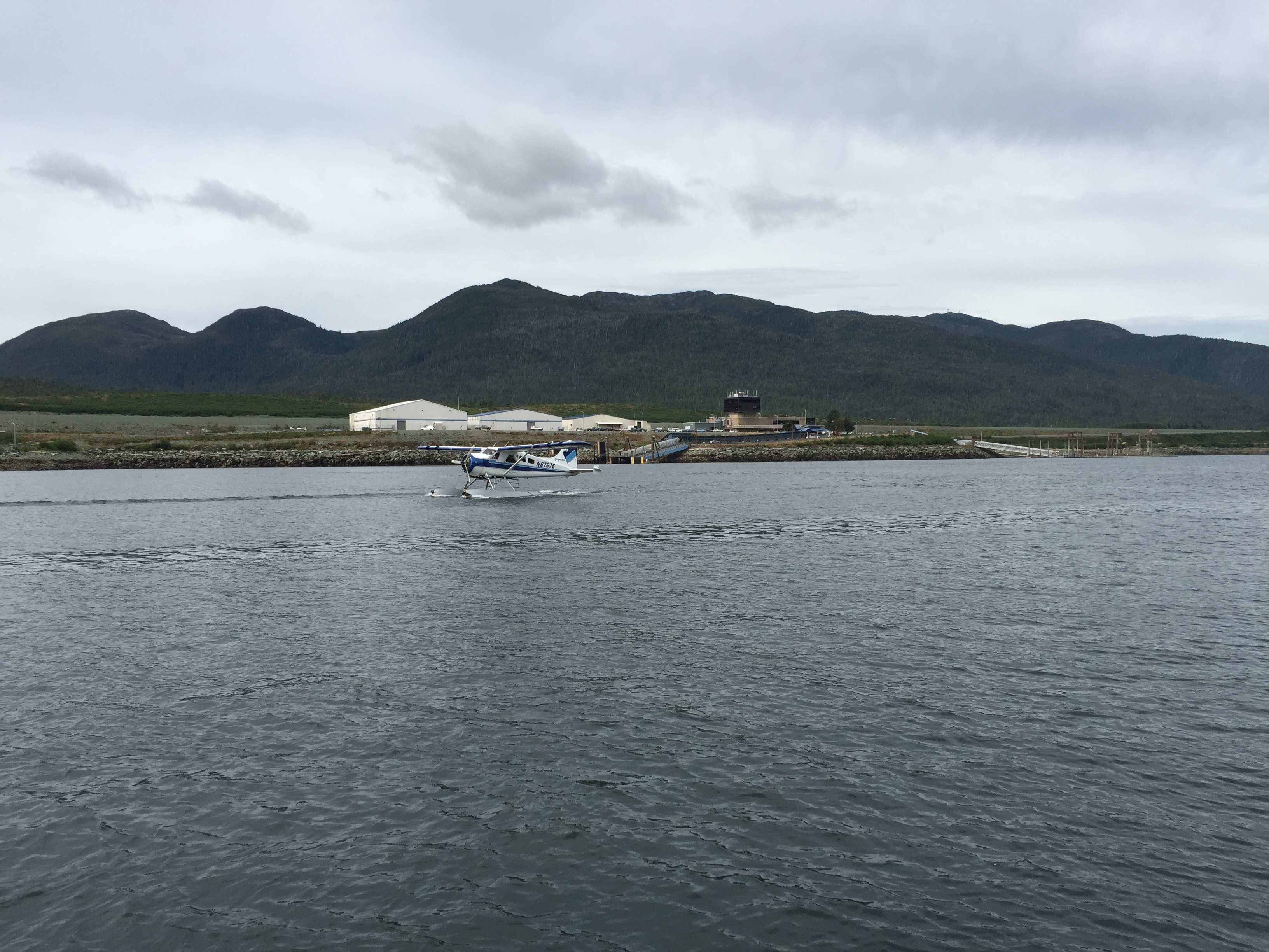 Taquan Air DHC-2 Beaver registered N67676 in front of Ketchikan International Airport, Alaska, USA